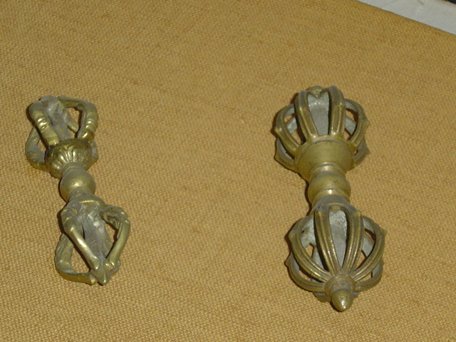 Vajra in the former Ethnographic Museum in Antwerp.